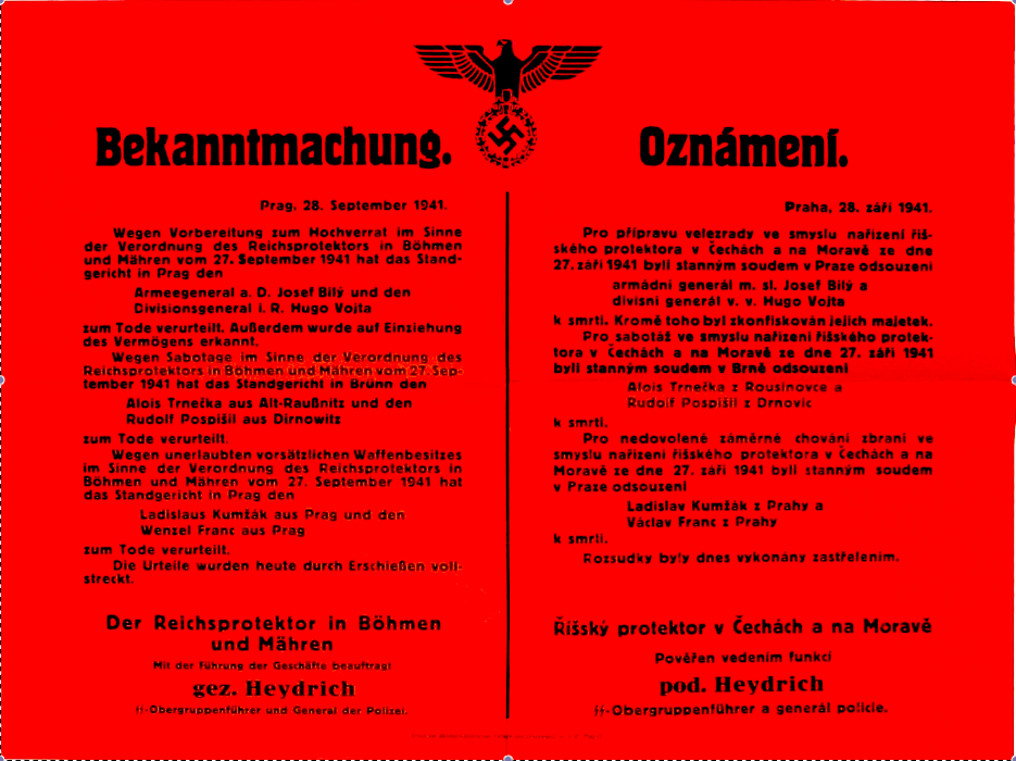 Notice of first public act by Reinhard Heydrich upon becoming Reichsprotektor of Bohemia and Moravia (Böhmen und Mähren / Čechy a Morava), announcing the execution of Gen. Josef Bílý, leader of the resistance movement Obrana Národa (National Defense) and five others.